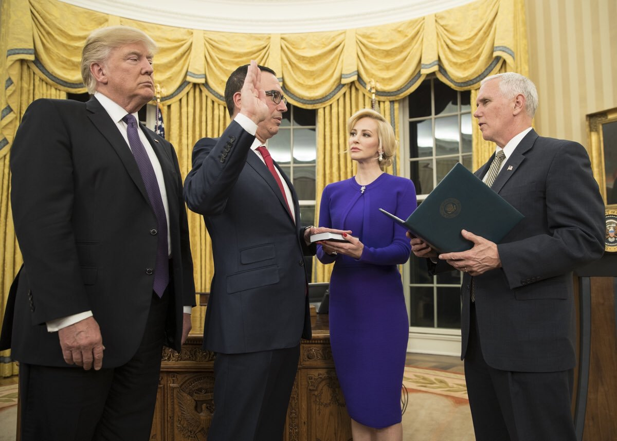 Steven Mnuchin being sworn in as the United States Secretary of the Treasury.